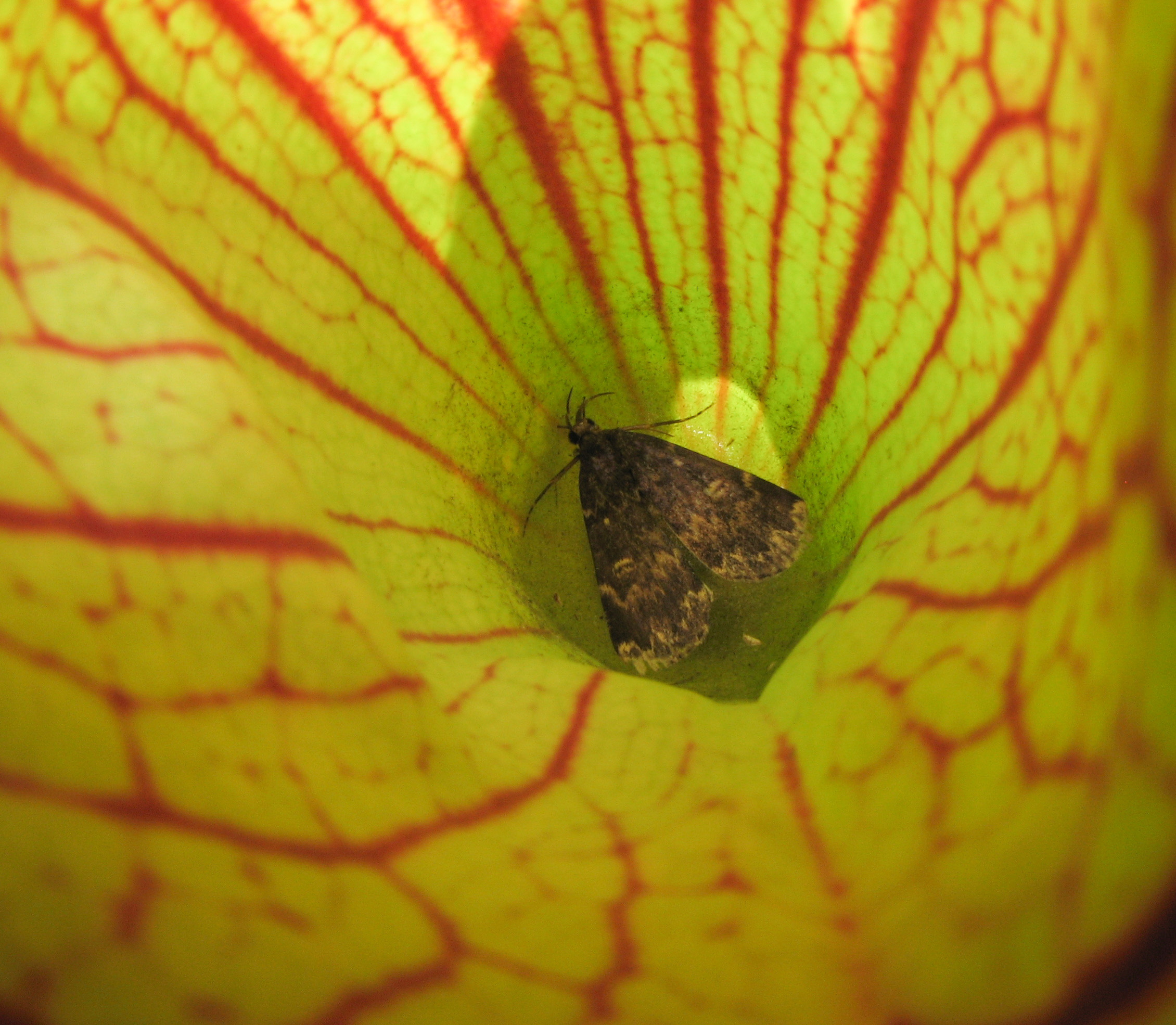 Idia lubricalis (Glossy Black Idia) moth on Sarracenia purpurea. Pennypack Restoration Trust, Montgomery County, Pennsylvania, USA. .